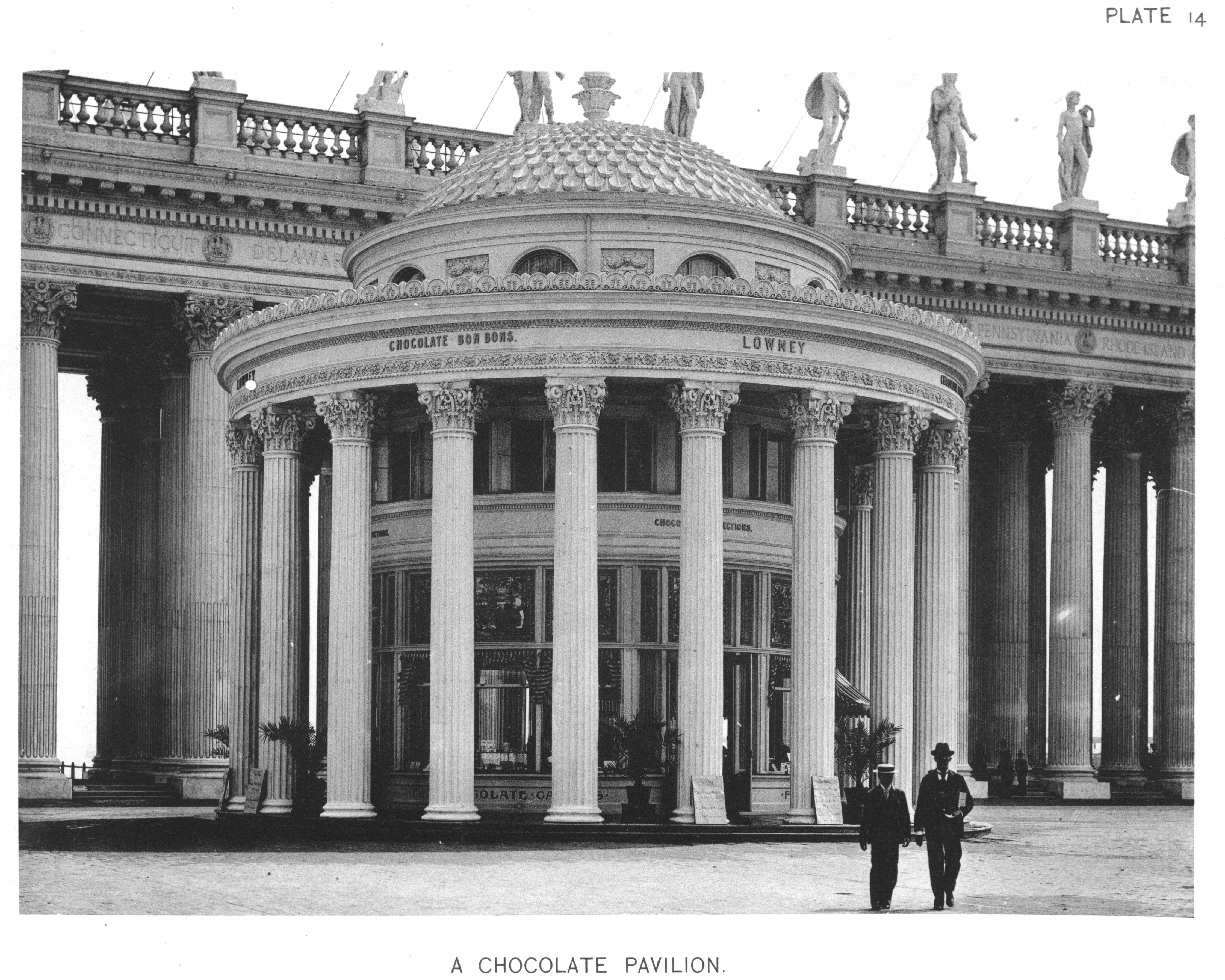 Official Views Of The World's Columbian Exposition: A Chocolate Pavilion - [Walter M. Lowney Co, Boston, Chocolate Bonbons Pavilion in front of the Peristyle.]